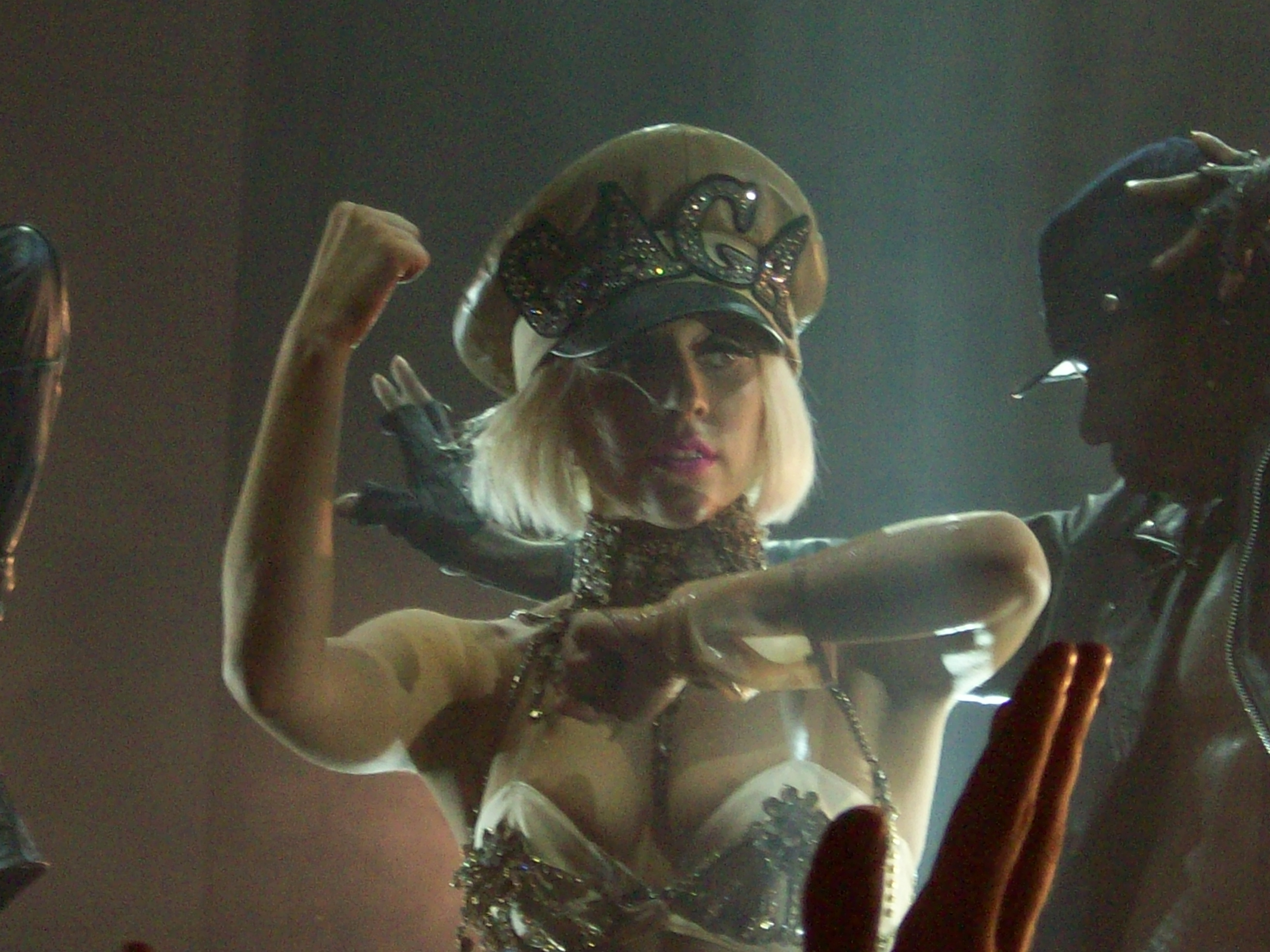 Taken in Fame Ball Tour Helsinki